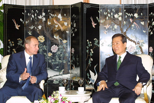 SHANGHAI. President Putin with South Korean President Kim Dae-jung.